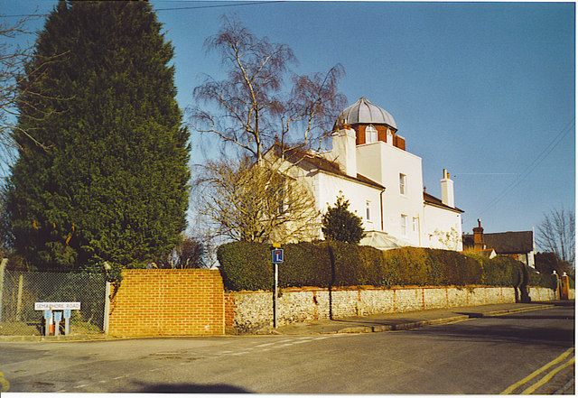 Semaphore House, Pewley Hill. This private house with its distinctive domed tower was once part of a vital military communications route. Semaphore messages, and the 1 o'clock time signal, were passed between London and Portsmouth along a chain of 13 stations, about 5 miles apart.Pewley received its signals from the tower on Chatley Heath which still stands today. The side road carries the nameplate, "Semaphore Road".